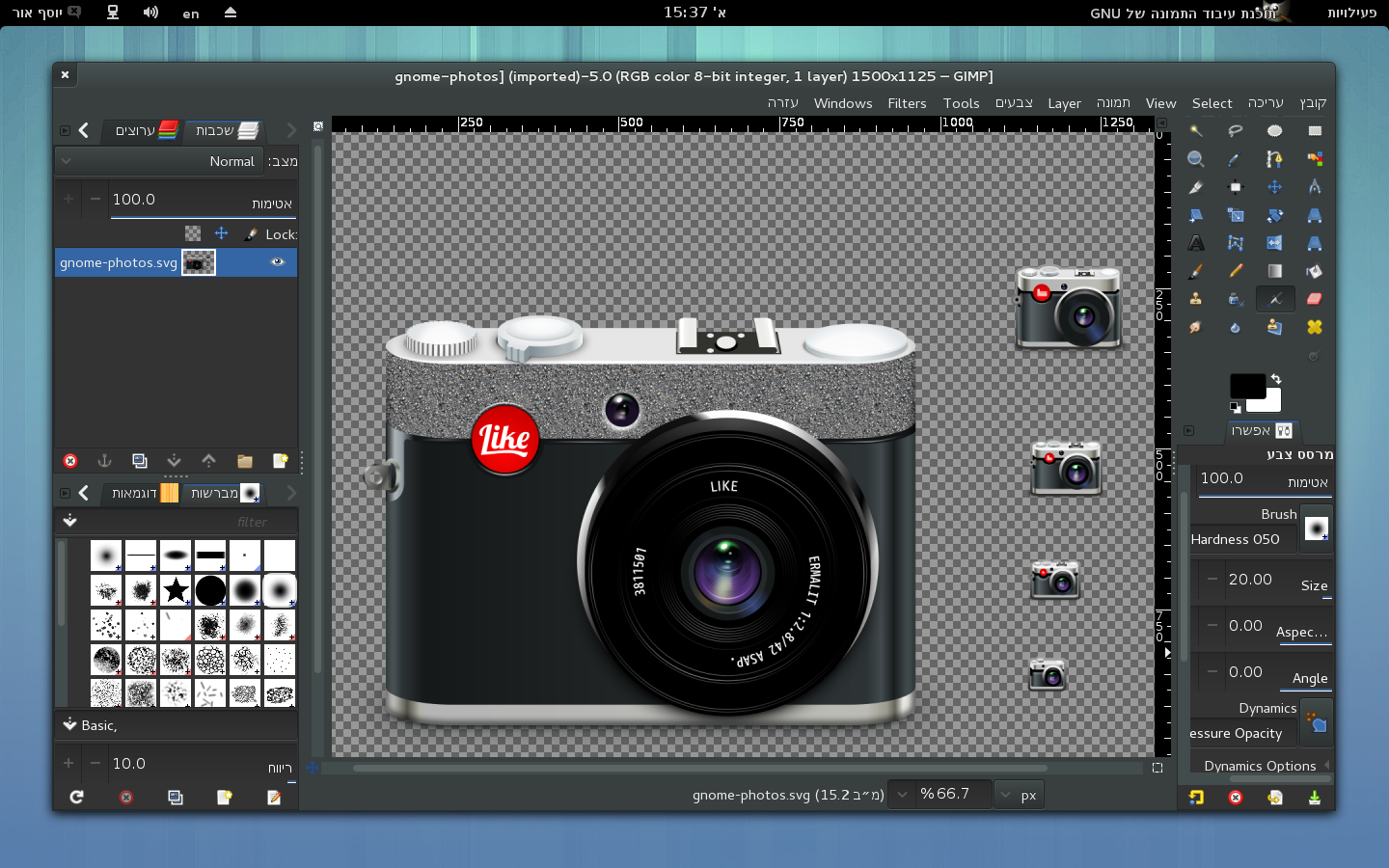 GIMP 2.9.9 (GTK+3) in Hebrew